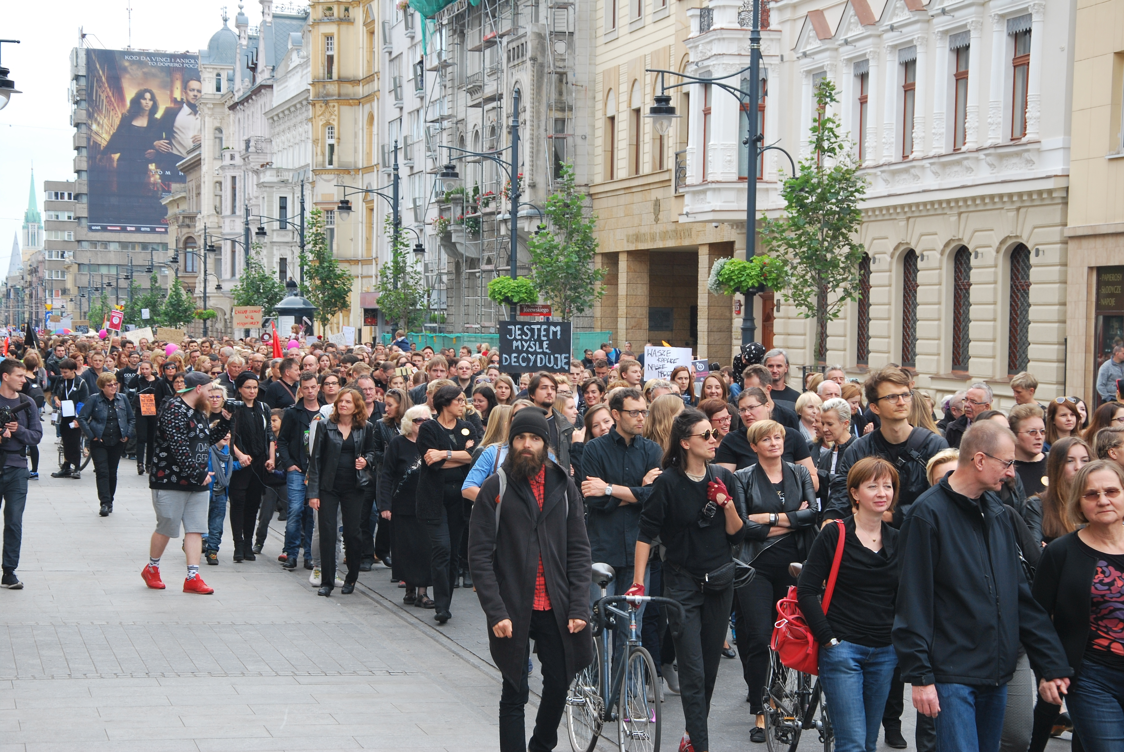 Black March in support of abortion rights, Łódź October 2nd 2016